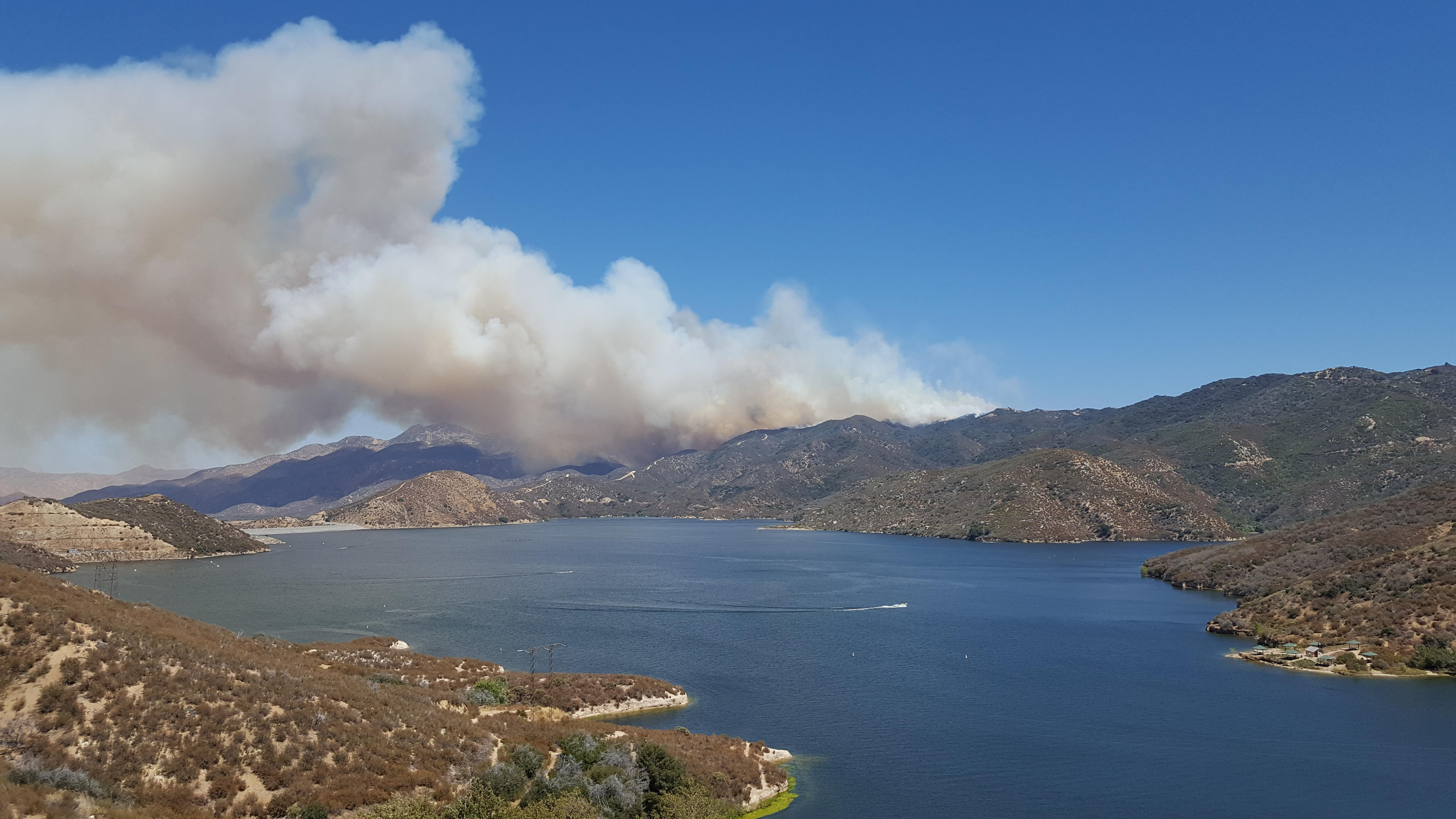 Pilot Fire from Silverwood Lake 7 August 2016